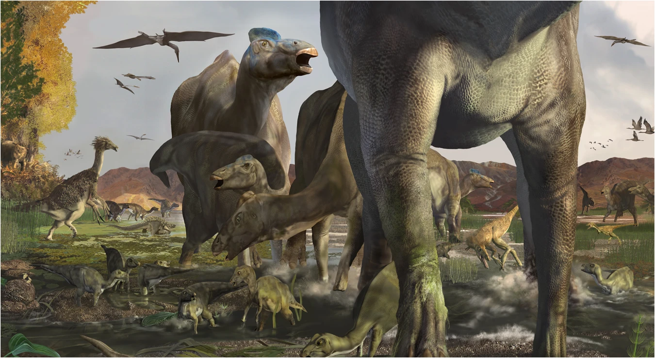 Life reconstruction of hadrosaur-therizinosaur co-occurrence based on tracks described in this report. Artwork by Karen Carr.